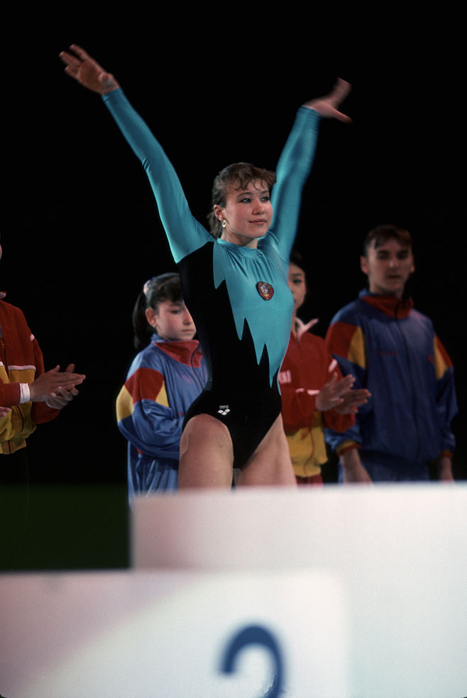 Svetlana Boguinskaya in Paris